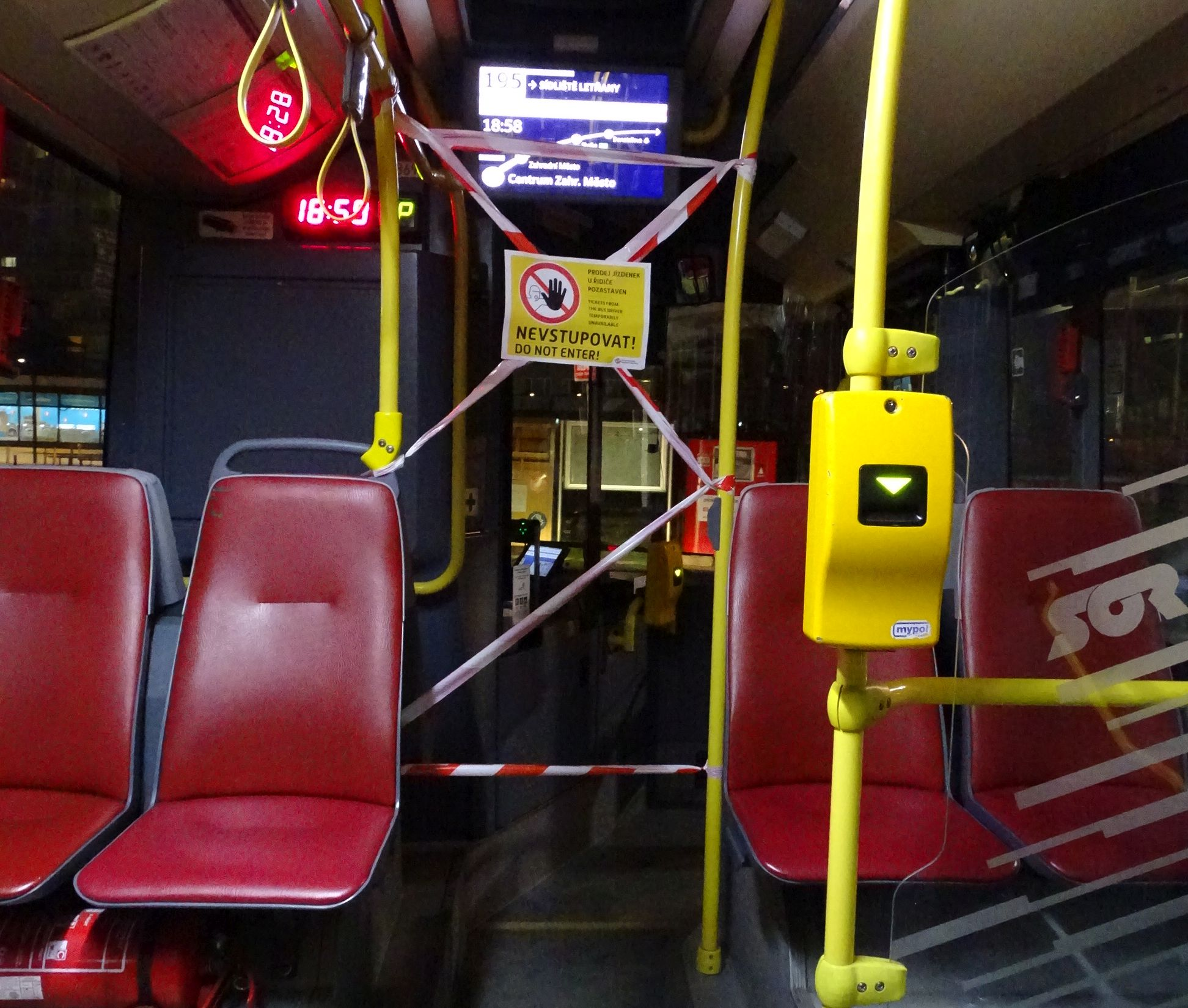 Prague-Záběhlice, Czechia. A bus during the coronavirus epidemic, closed area near the driver's cab.